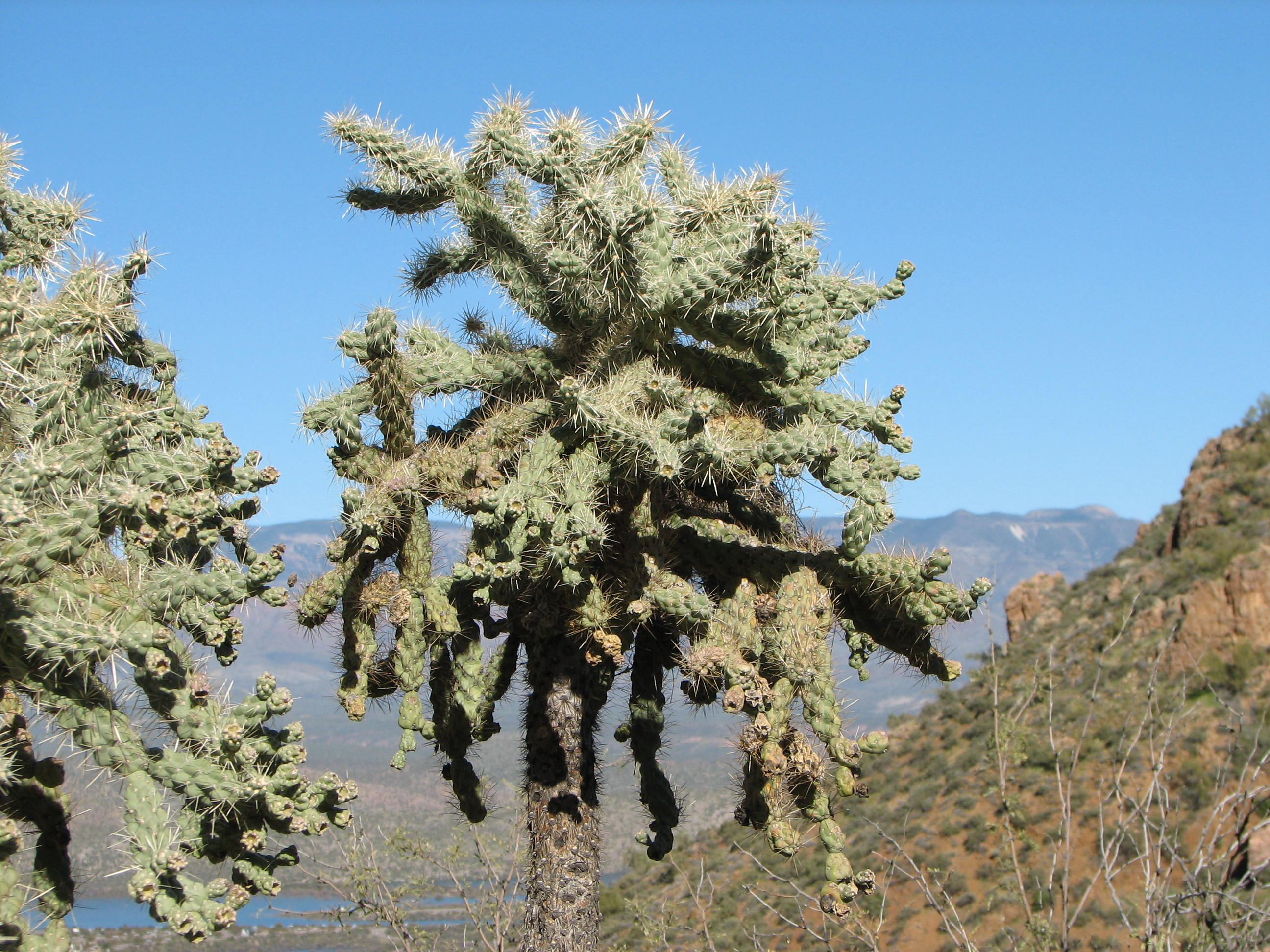 Chain-fruit cholla, Tonto National Forest, Arizona, United States